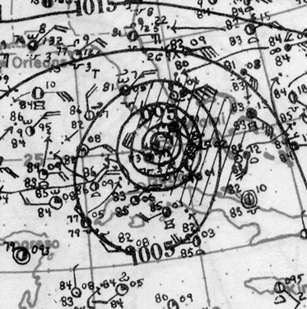 Surface analysis of the 1926 Miami hurricane impacting southern Florida as a Category 4 hurricane. Adjusted for inflation and wealth normalization, this hurricane is the costliest in Atlantic recorded history.